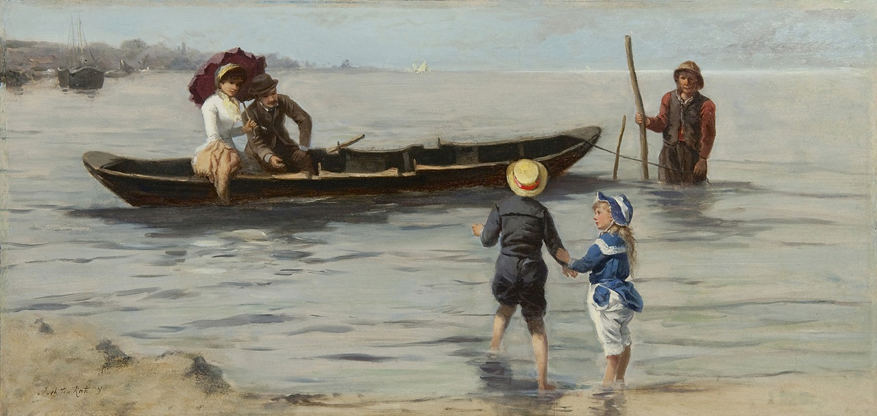 Het boottochtje